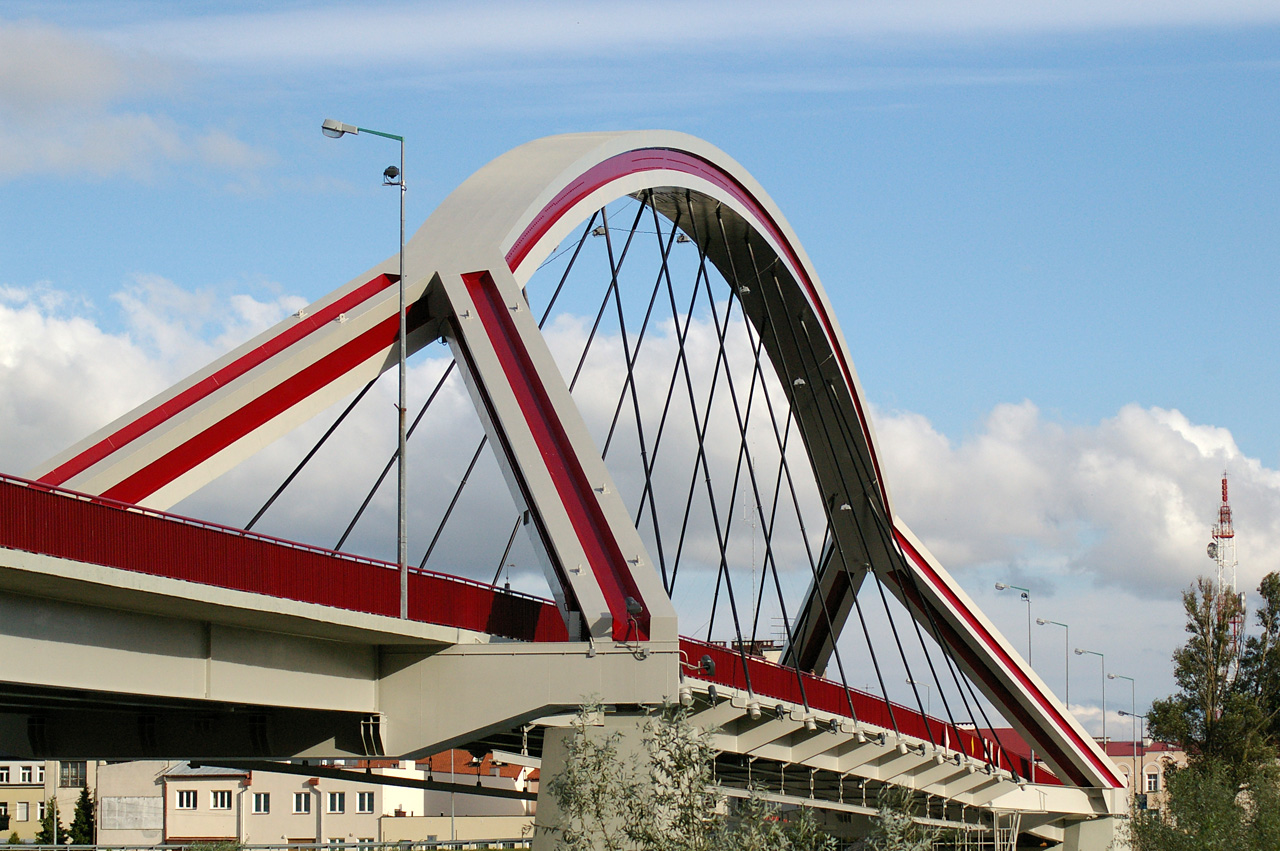 City of Ostroleka (Poland), the Madalinski Bridge.